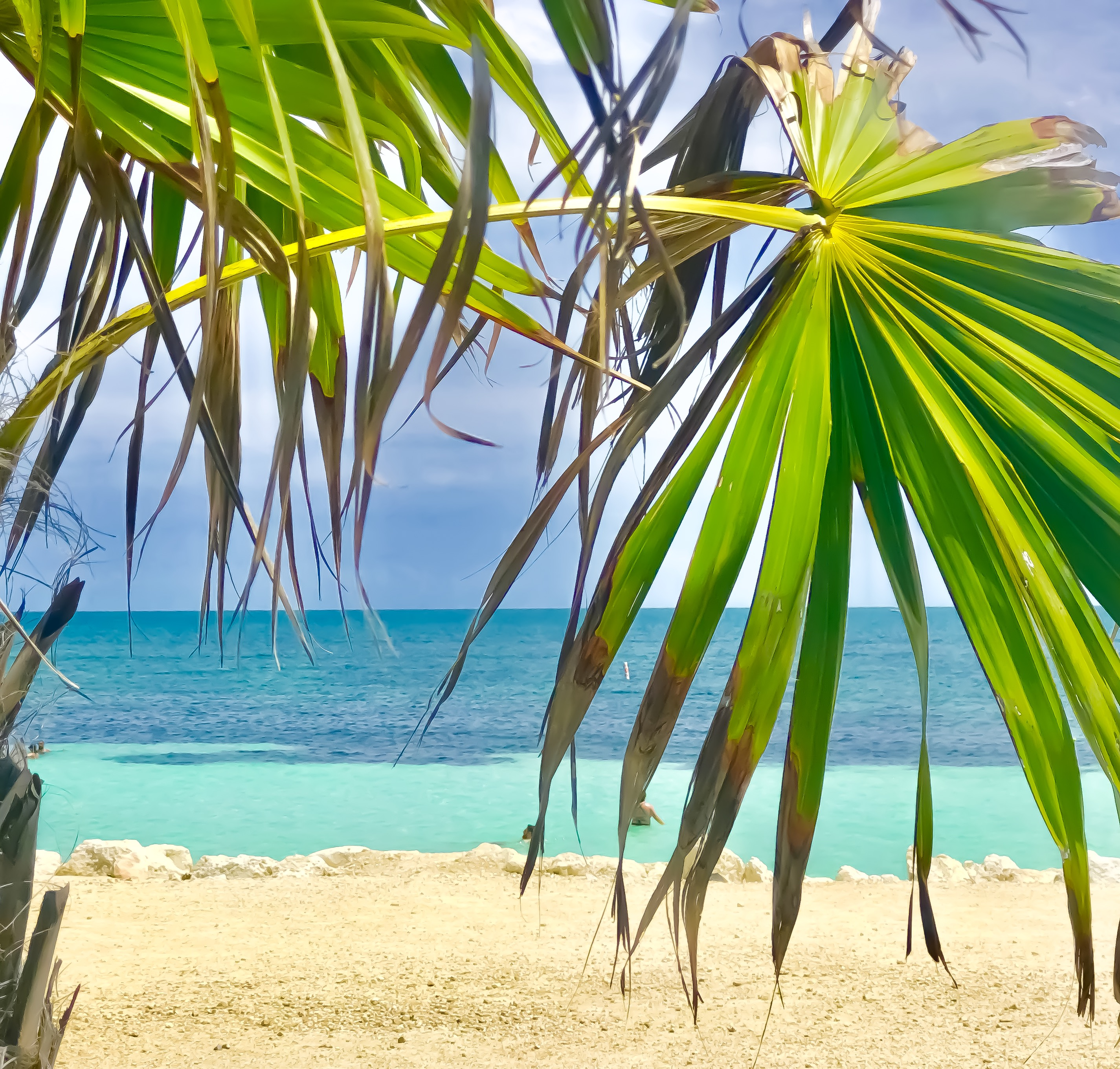 Bahia Honda Florida Keys beach